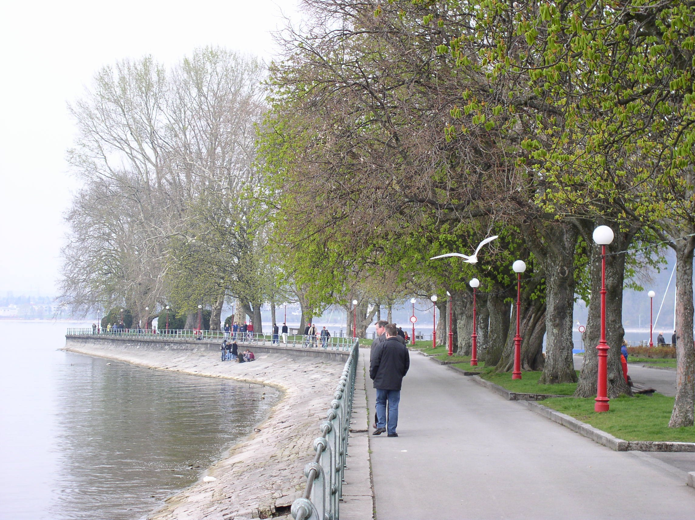 Description: Bregenzer Seepromenade neben dem Schiffshafen Source: photo taken by me, April 15, 2004 Photographer: Baikonur